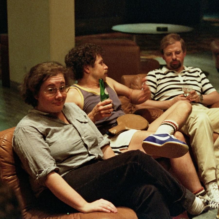 Rachel Crotto, her coach and Horst Metzing, 1982 at Bad Kissingen (Interzonal Tournament for Women)